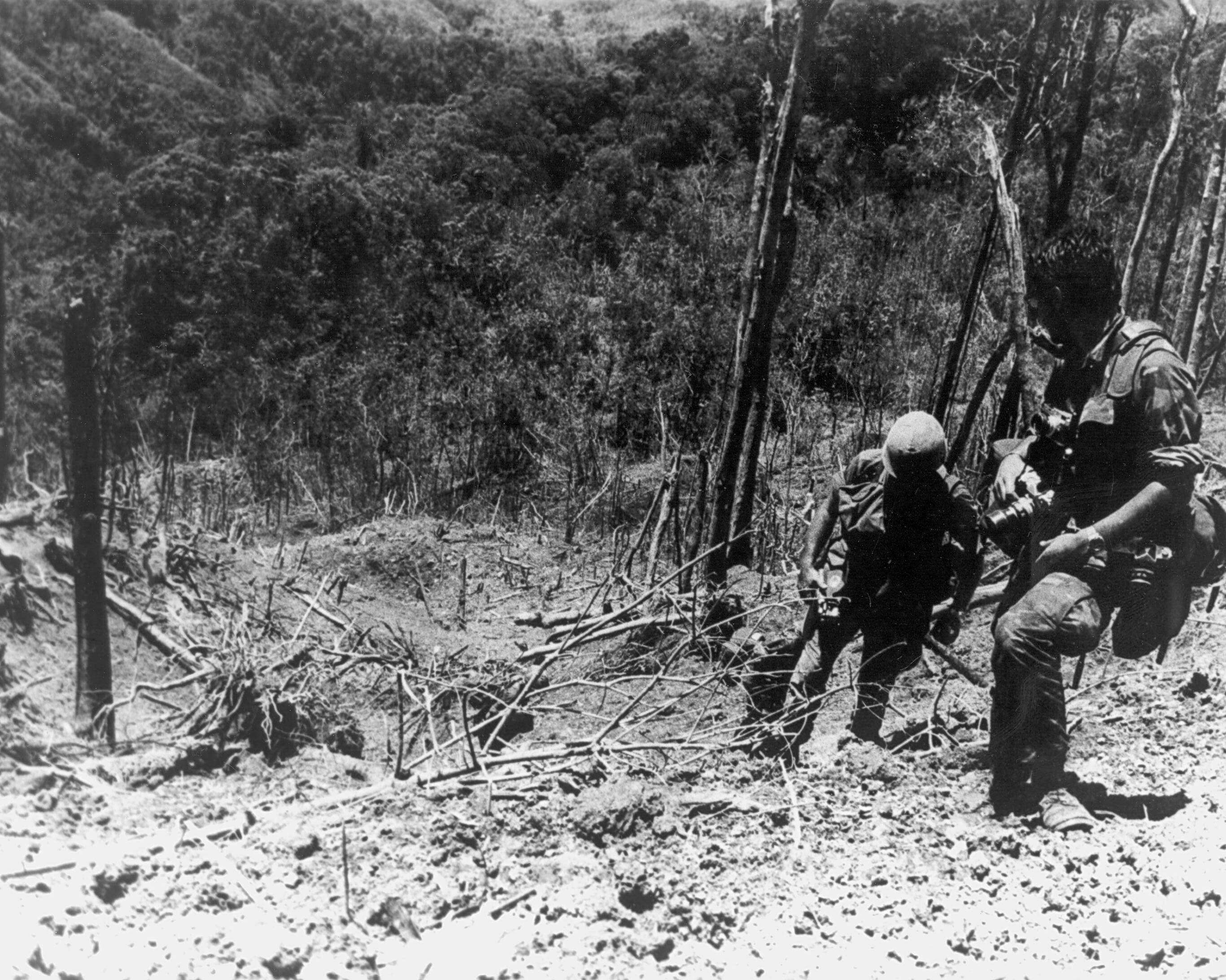 A U. S. Army Photographer and assistant climbing through the devastated landscape on Dong Ap Bia after the battle. (Melvin Zais Photograph Collection). (Photo Credit: USAMHI)